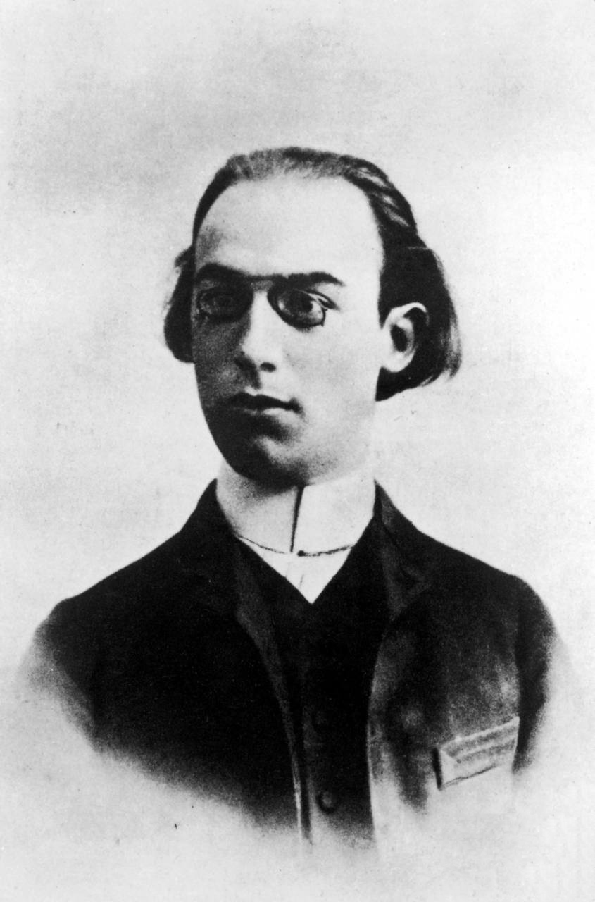 Serious portrait of composer Erik Satie.